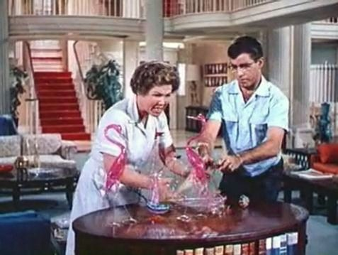 Kathleen Freeman and Jerry Lewis in The Ladies Man - trailer (cropped screenshot)